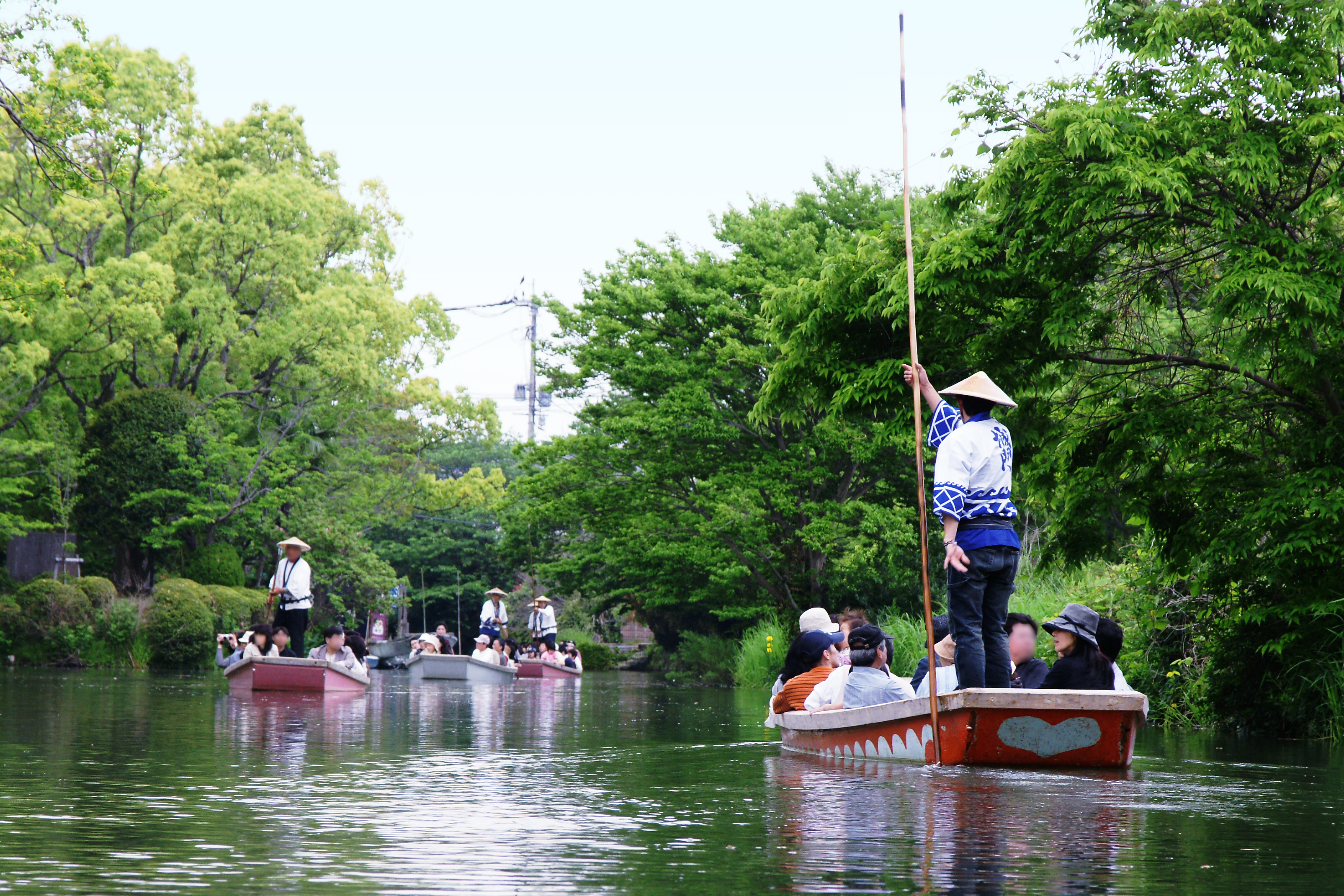 Yanagawa, Fukuoka prefecture, Japan